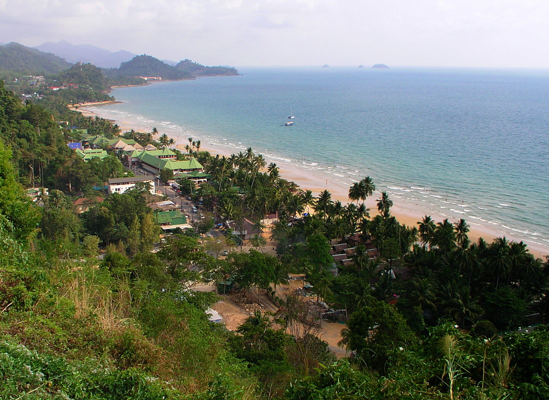 White Sand Beach, Ko Chang